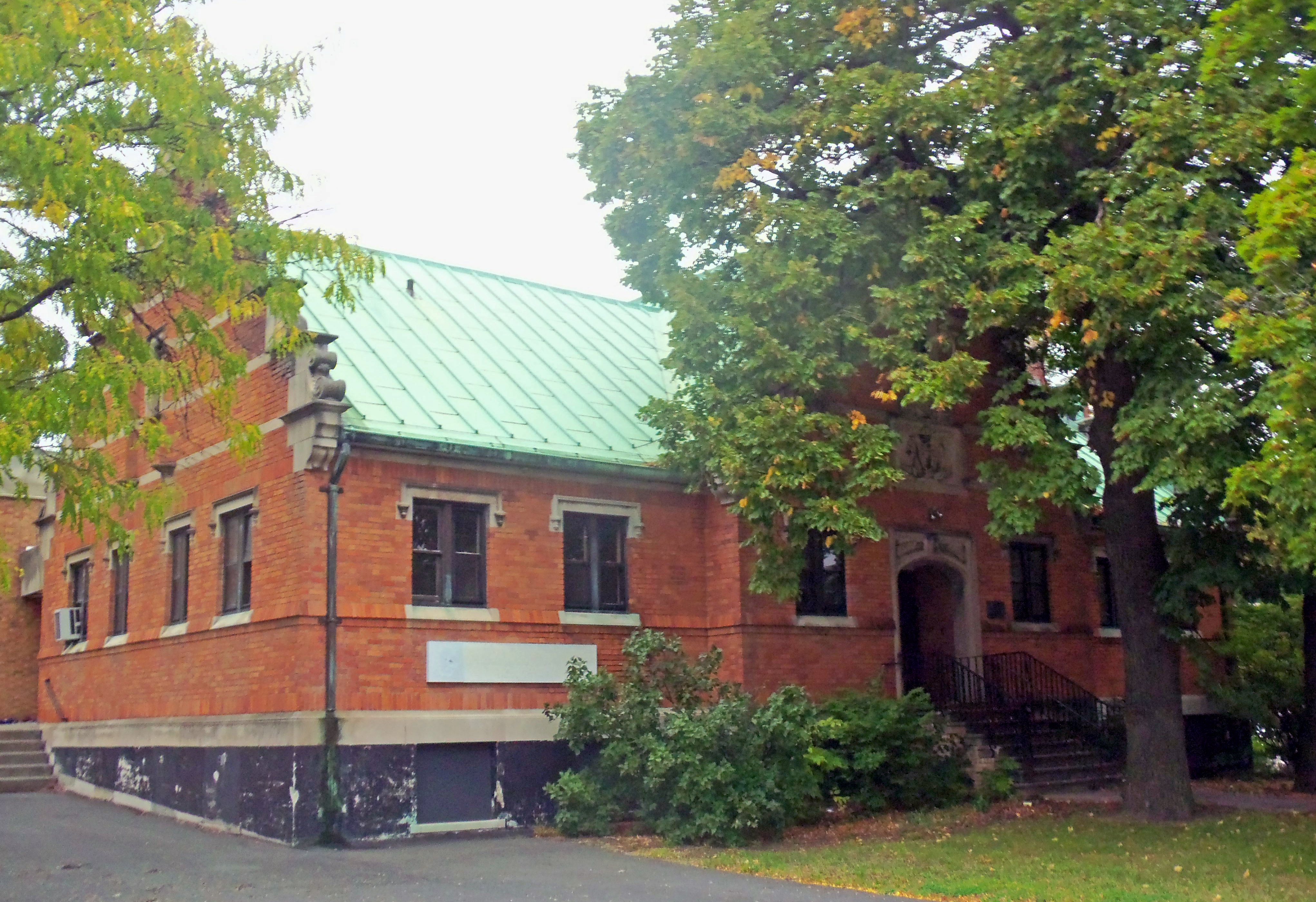 Former Central Fire Alarm Signaling Building, a contributing property to the Center Square/Hudson–Park Historic District later used as a senior center, Albany, NY, USA